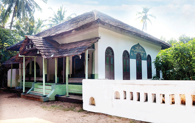 thayengadi makham